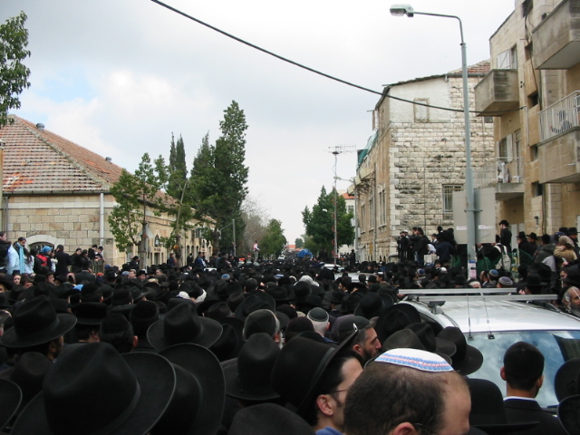 Taken by User:Shuki just after the eulogies in front of the Nachalat Yitzhack Yeshiva, 19 David Street (aka Habucharim street in the Habucharim neighborhood), Jerusalem and after the funeral procession began towards the cemetery.